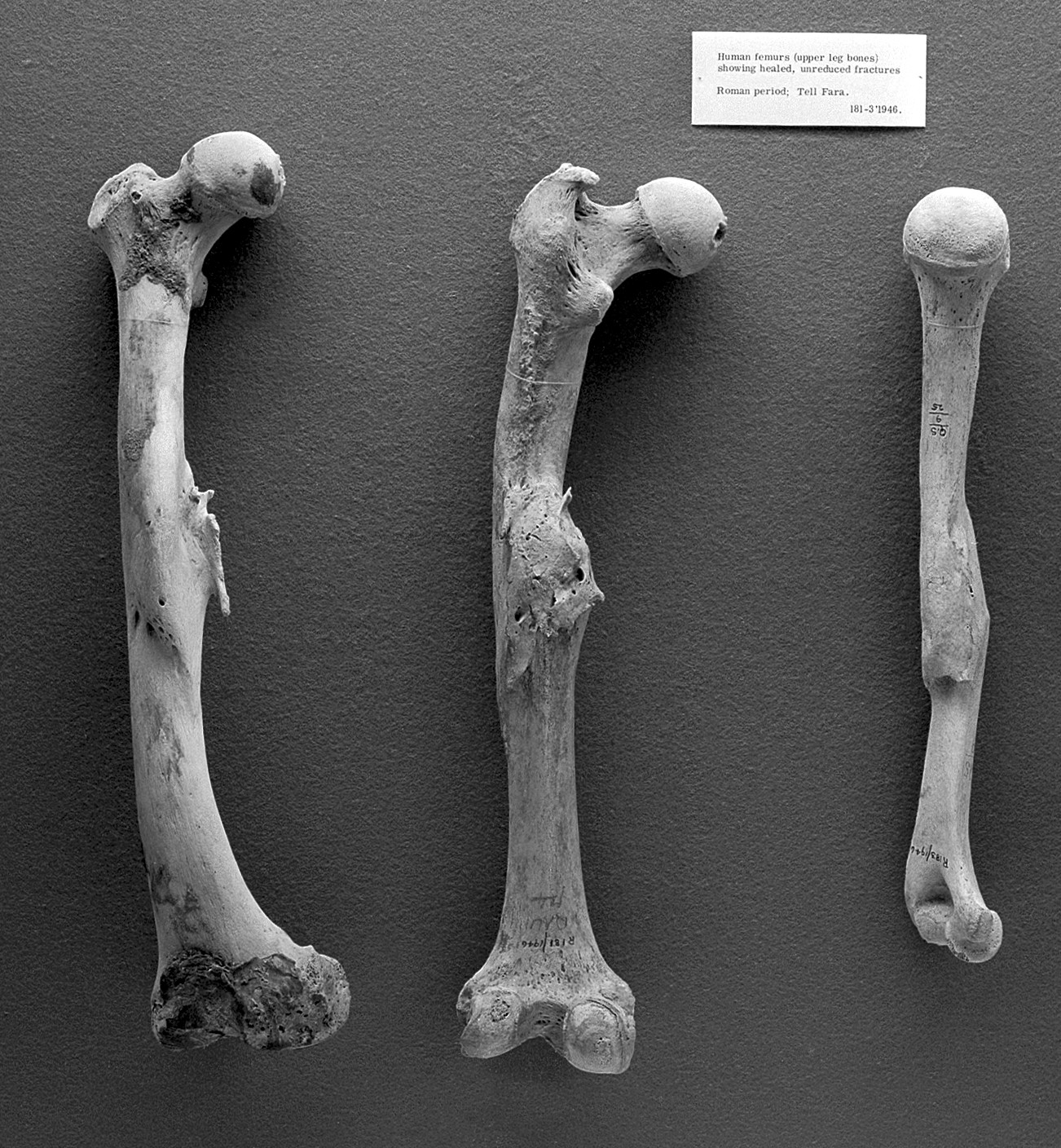 Human femurs and humerus (right) from Roman period, Tell Fara Wellcome Images Keywords: Bone; palaepathology; tell fara; Femur; Bone and Bones